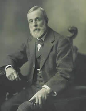 Ormond family of New Zealand